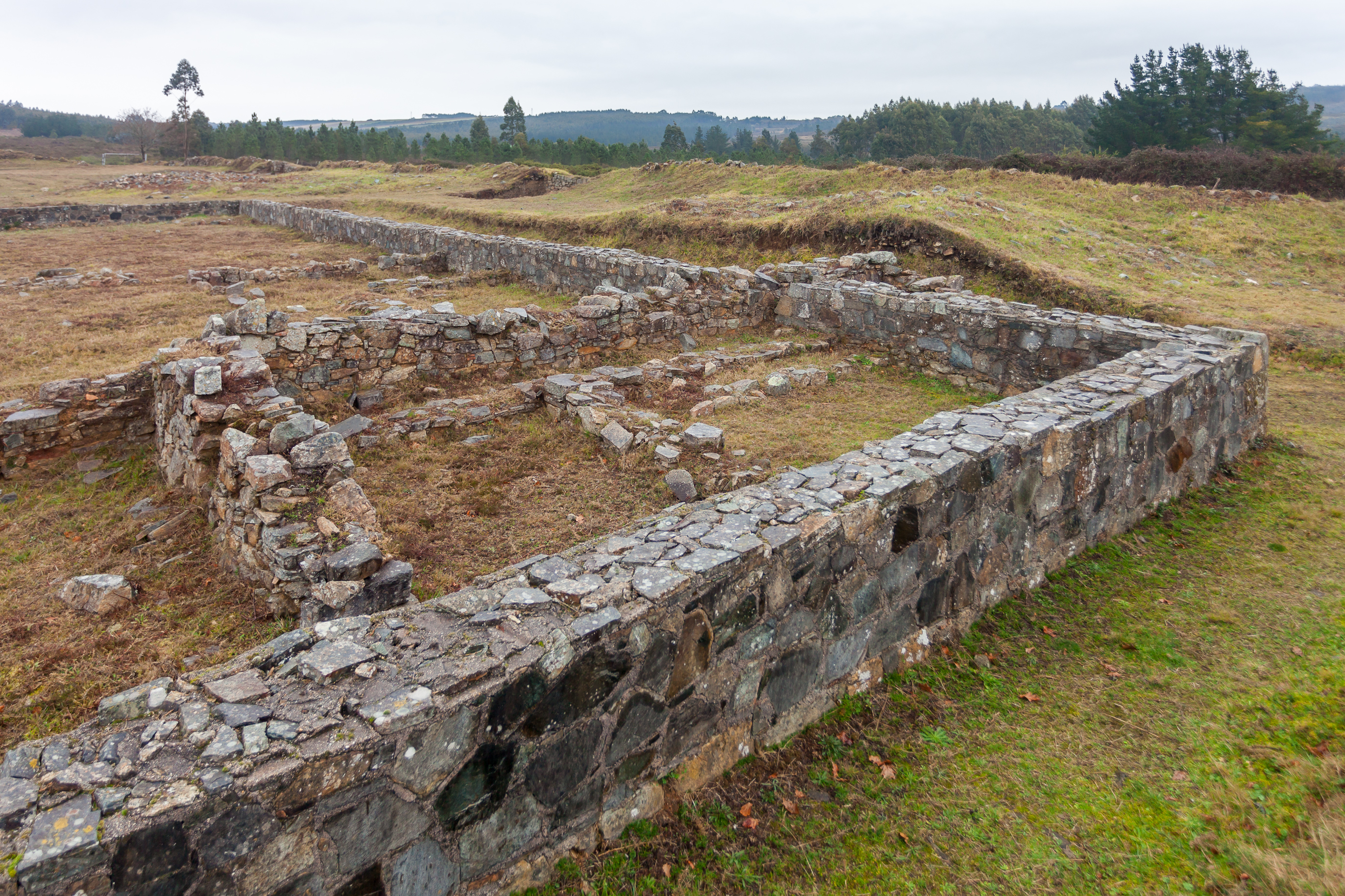 Ancient Roman castra of A Ciadella, Sobrado, Galicia (Spain).